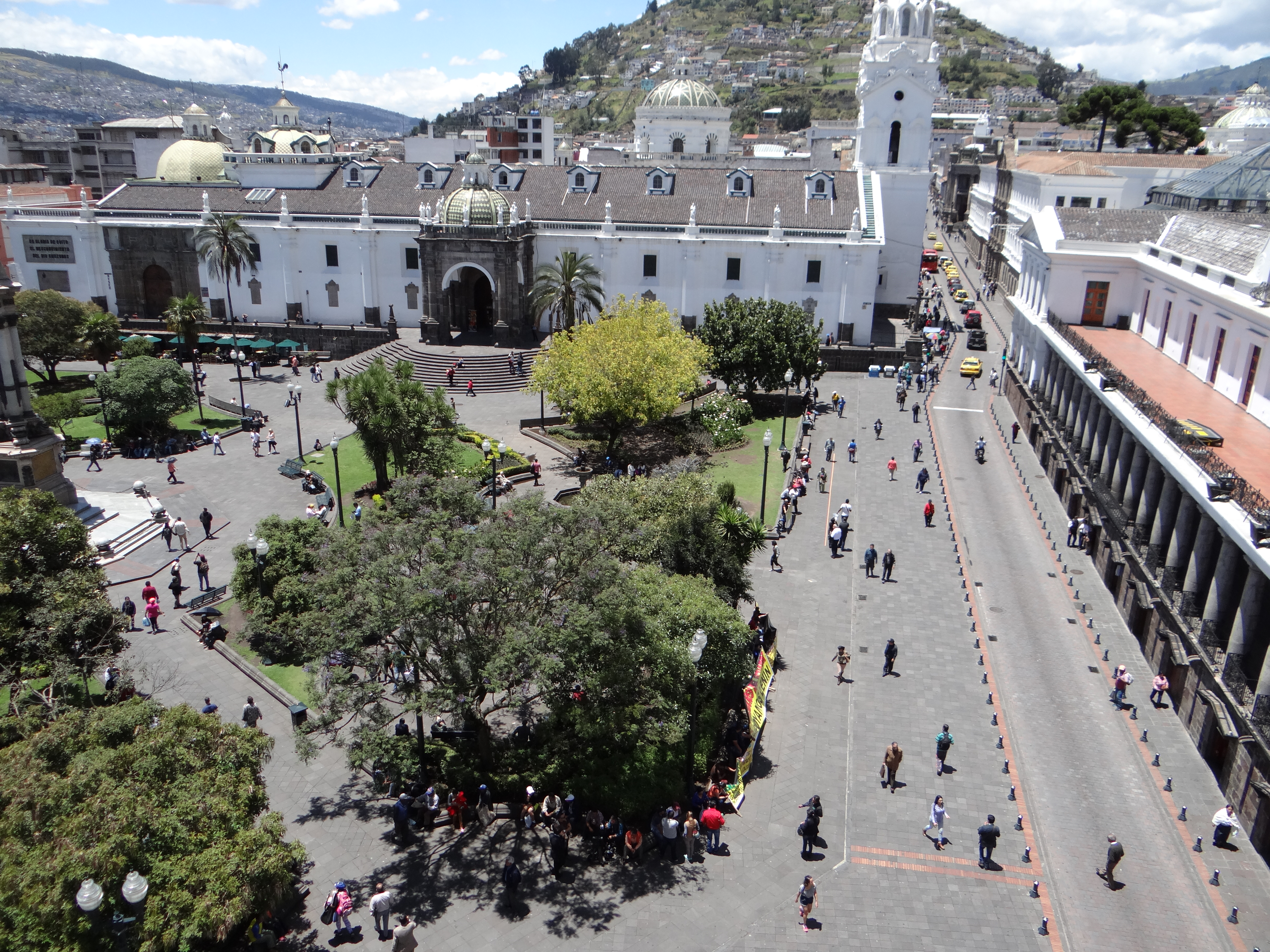 (El Centro Histórico de Quito) Roof deck (Palacio de Pizarro) Quito Colonial Center Plaza de la Independencia (Quito) Historic Center of Quito UNESCO World Heritage Site (El Centro Histórico, Quito) Photography by David Adam Kess